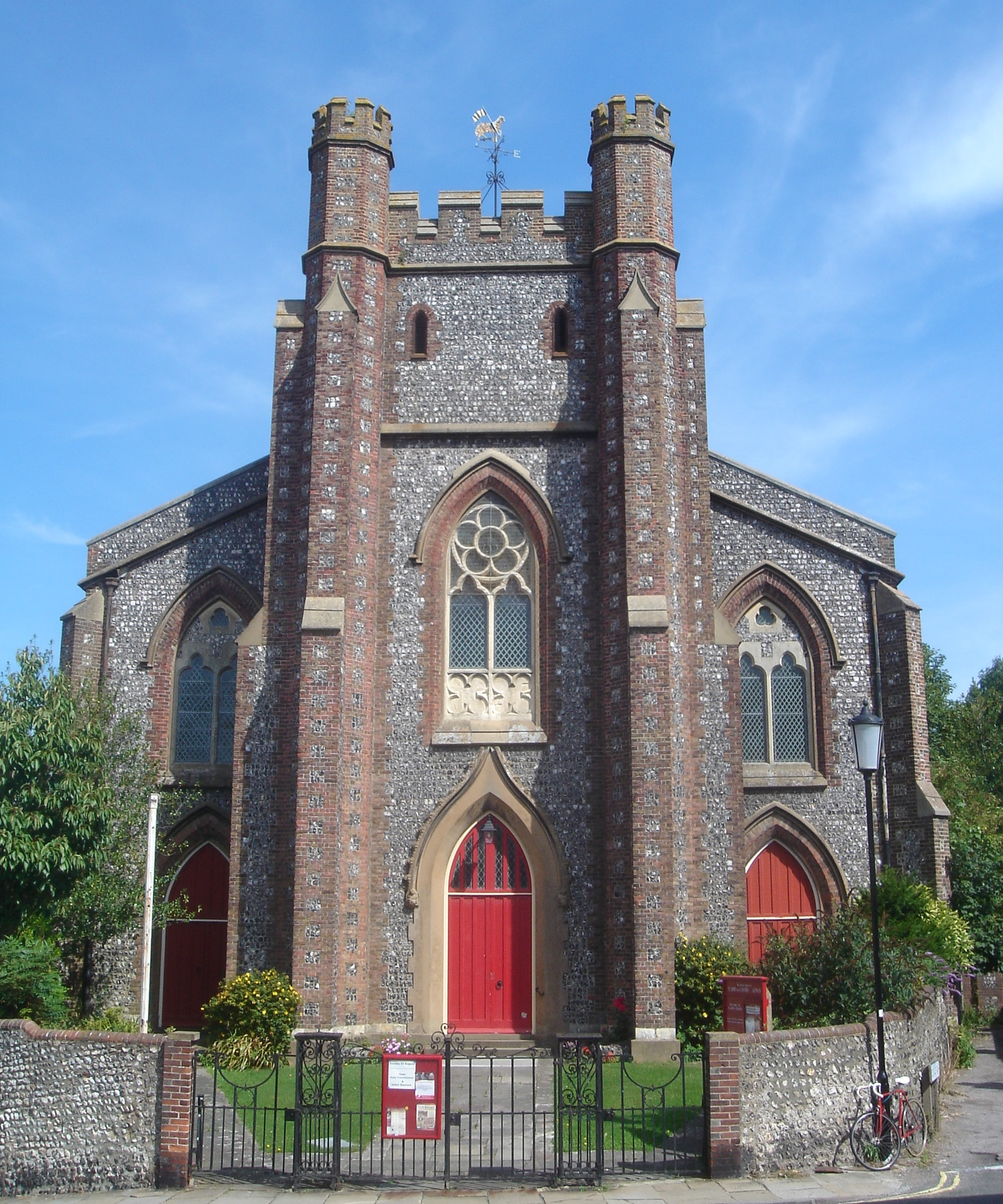 St John-sub-Castro Church, Abinger Place, Lewes, District of Lewes, East Sussex, England. Built in 1839 to replace an ancient church on the same site. St John sub Castro Church replaced a much older church built on one of a series of 3 mounds in Lewes. (possibly of bronze age or earlier origin) Its link with the Lewes Castle (sub Castro = under the castle) may also be related to these mounds as the original Norman Castle in Lewes was built on the largest of these mounds, known as Brack Mount. The third mound was where the Lewes public house The Elephant and Castle know stands. Listed by English Heritage at Grade II (IoE Code 292973)